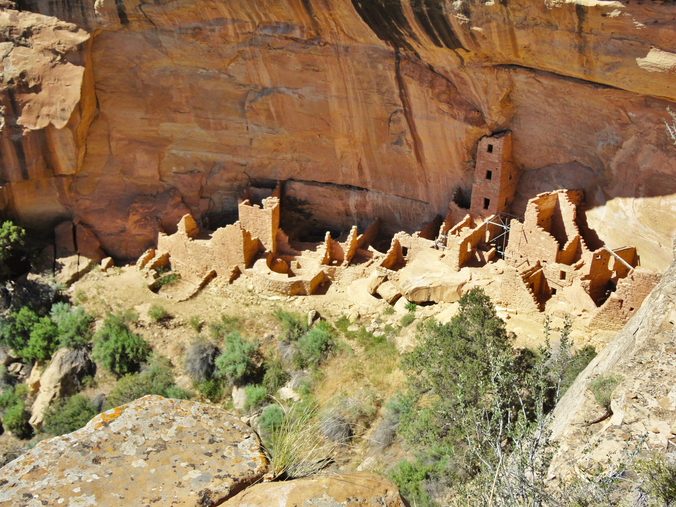 I took this picture from the overlook above Square Tower House.